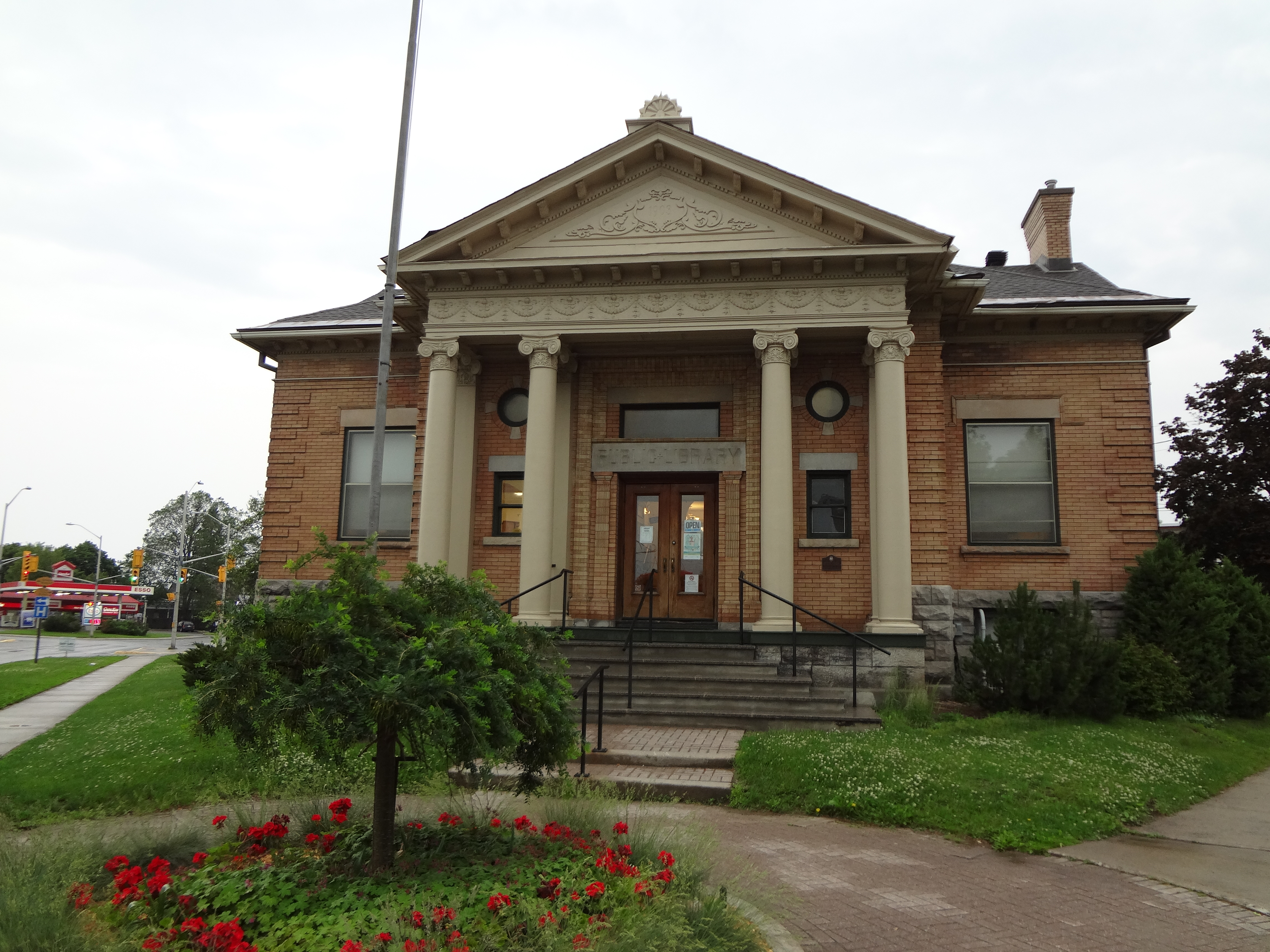 The elegant Smith's Falls Town Hall. We walked past this building on our way to the train station after checking out the railway museum in that town. For pictures of the railway museum (Railway Museum of Eastern Ontario), please see previous pictures in this album. (Smith's Falls, Ontario, Canada, June 2015)